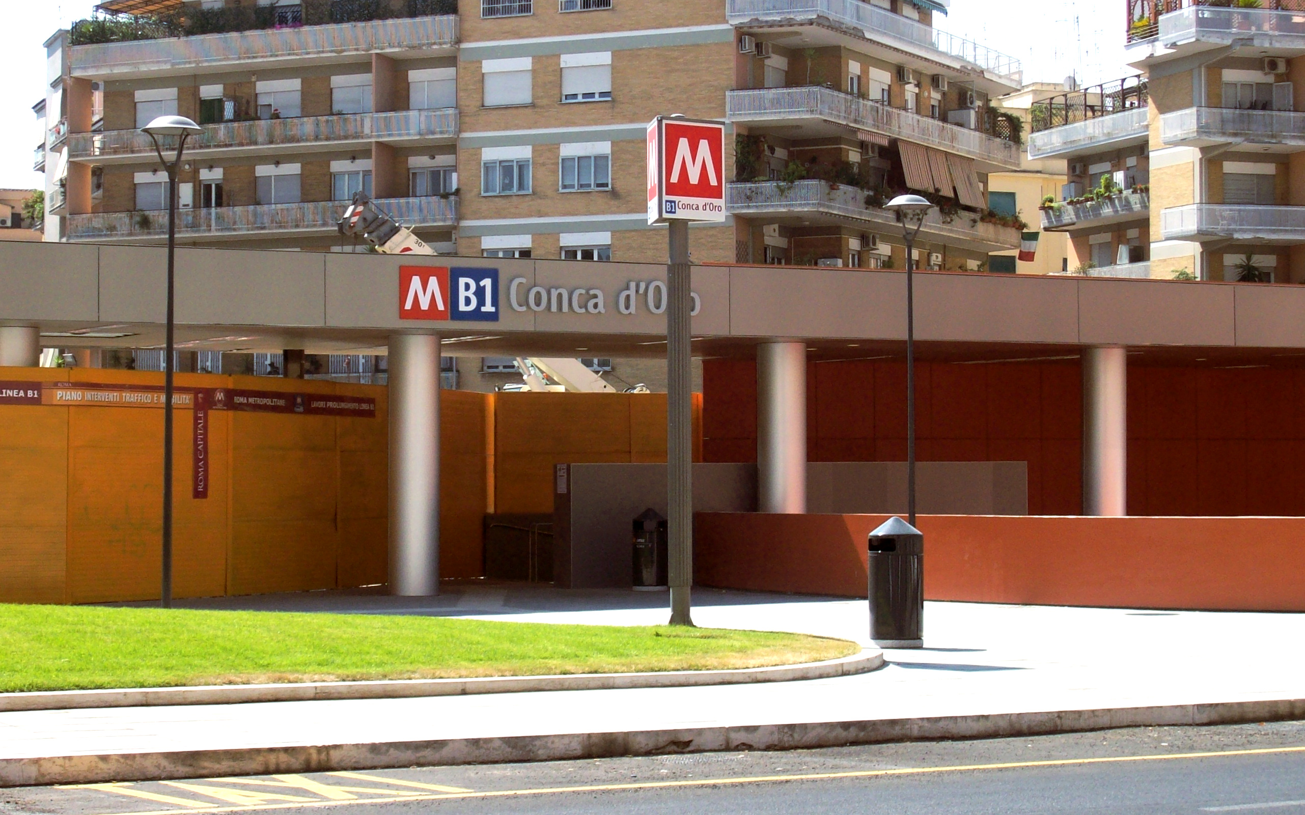 The main entrance of the Rome Metro B1 station Conca d'Oro